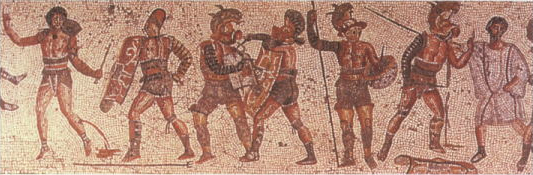 Gladiators from the Zliten mosaic. The gladiators are (from left) a disarmed and surrendering retiarius and his secutor opponent, two gladiators of unknown type, a Thracian and his surrendering opponent of unknown type, and the referee.